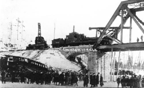 Photograph of cleanup efforts at the Spanish River railway bridge showing a large crowd gathered along with wreckage from the crash.